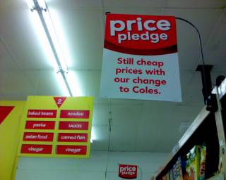 Signage inside a BiLo store in Kensington Park, Adelaide, announcing change.